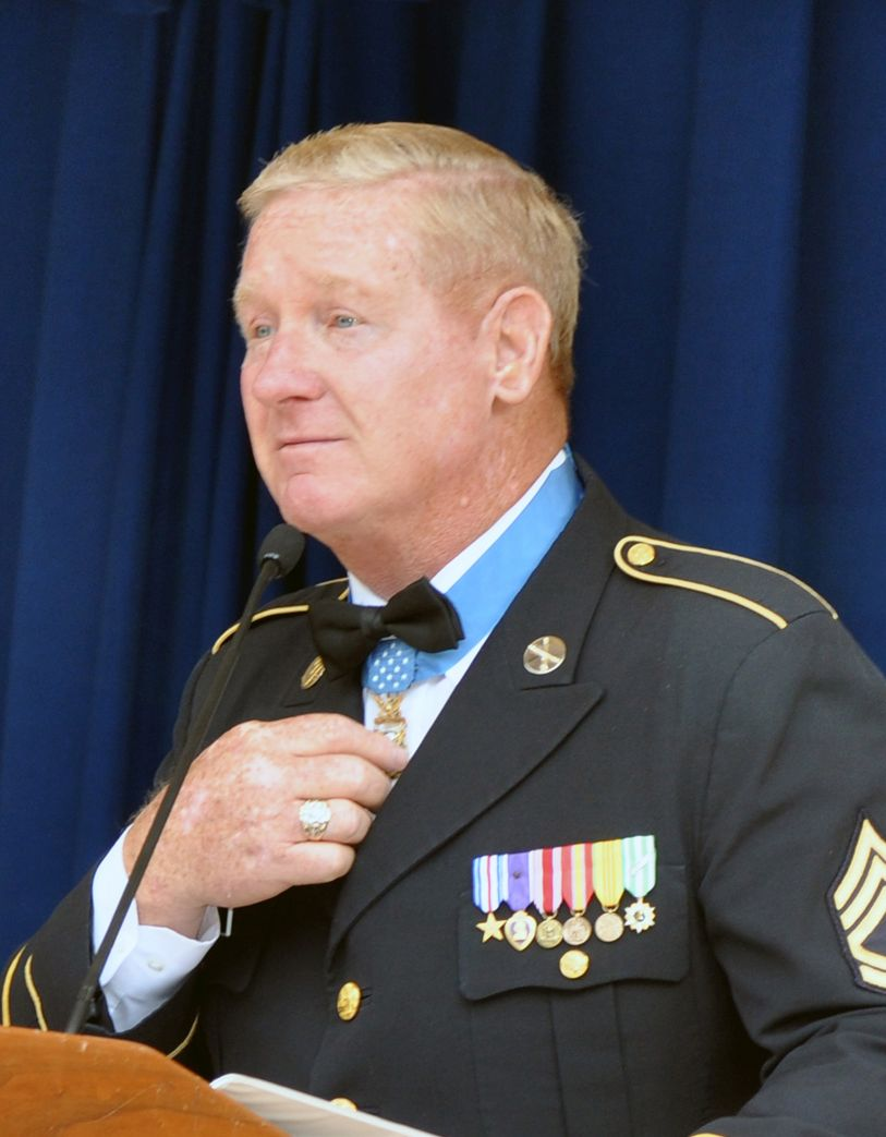 U.S. Army Retired Sgt. 1st Class Sammy Davis clutches the Medal of Honor he was awarded for actions in Vietnam, during a ceremony marking the partnership between the Army National Guard, U.S. Army Reserve and Helmets to Hardhats, at the Pentagon, Va., July 2, 2009. Helmets to Hardhats is a nonprofit program that connects service members with careers in building and construction trades. "There is nothing broken in this nation, that we people cannot repair," Davis said. "You don't lose, until you quit trying."